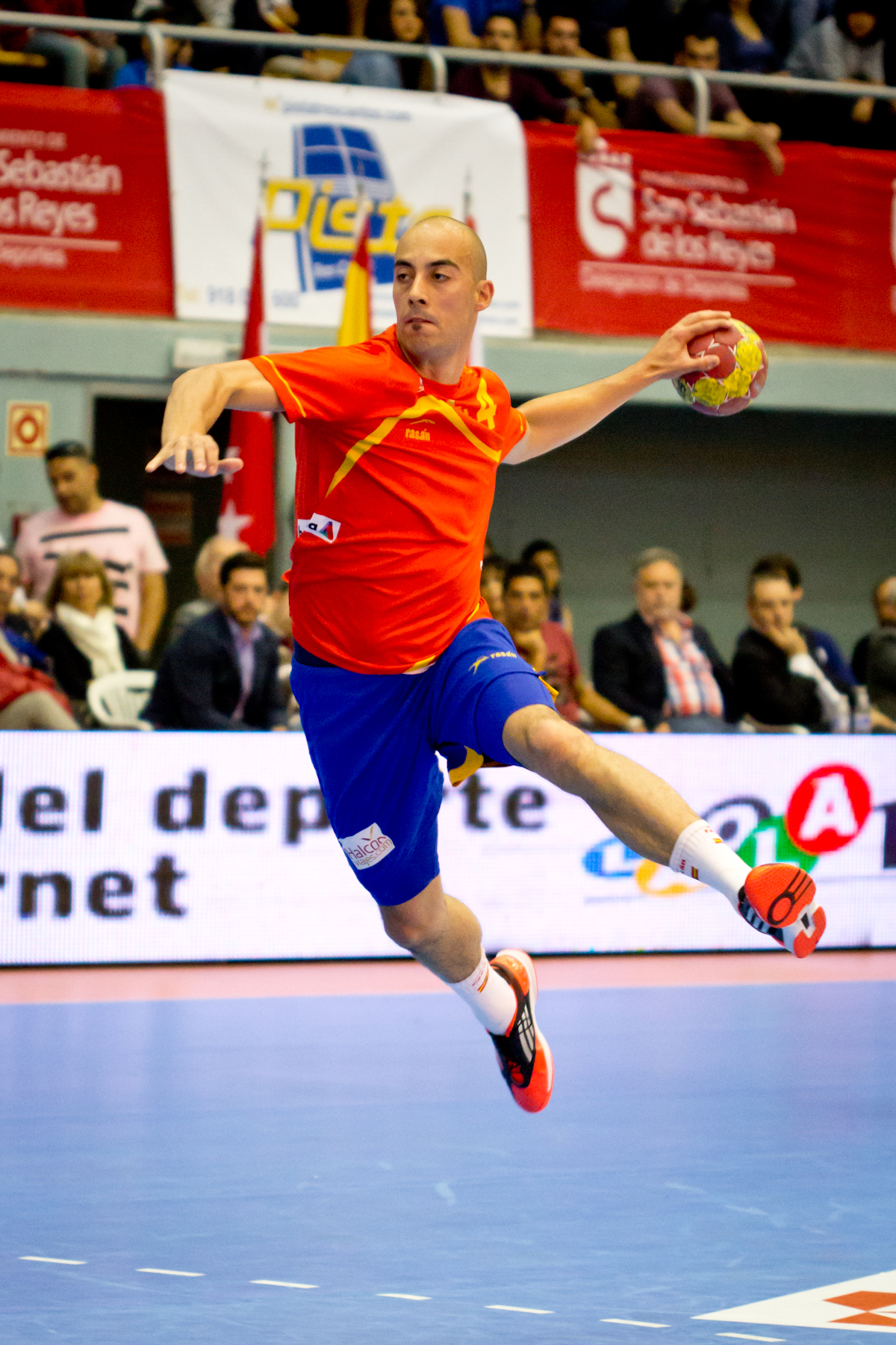 Albert Rocas with the Spain national handball team at the Spain Handball All Star Game 2013, in San Sebastián de los Reyes, Madrid, Spain.